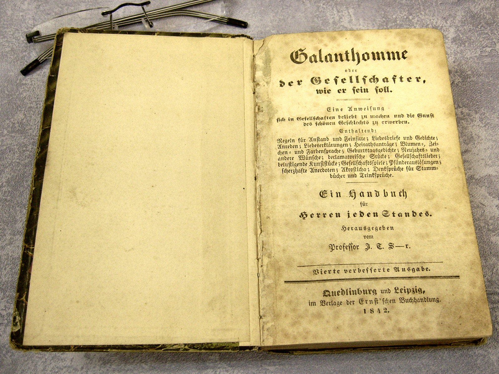 Galanthomme, 1842